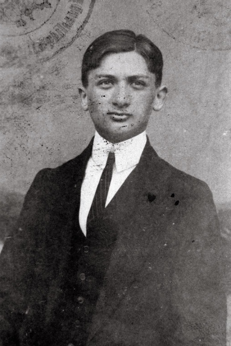 Description: Student identity card photo of Joseph Roth. Joseph Roth was one of the most prominent Austrian writers of the first half of the 20th century. Radetzky March (1932) and his novel of Jewish life, Job (1930) are among his best-known works. Creator/Photographer: unknown Medium: black-and-white reproduction Date: circa 1914 Persistent URL: Repository: Parent Collection: Joseph Roth Collection Call Number: AR 1764 Rights Information: No known copyright restrictions; may be subject to third party rights. For more copyright information, click See more information about this image and others at